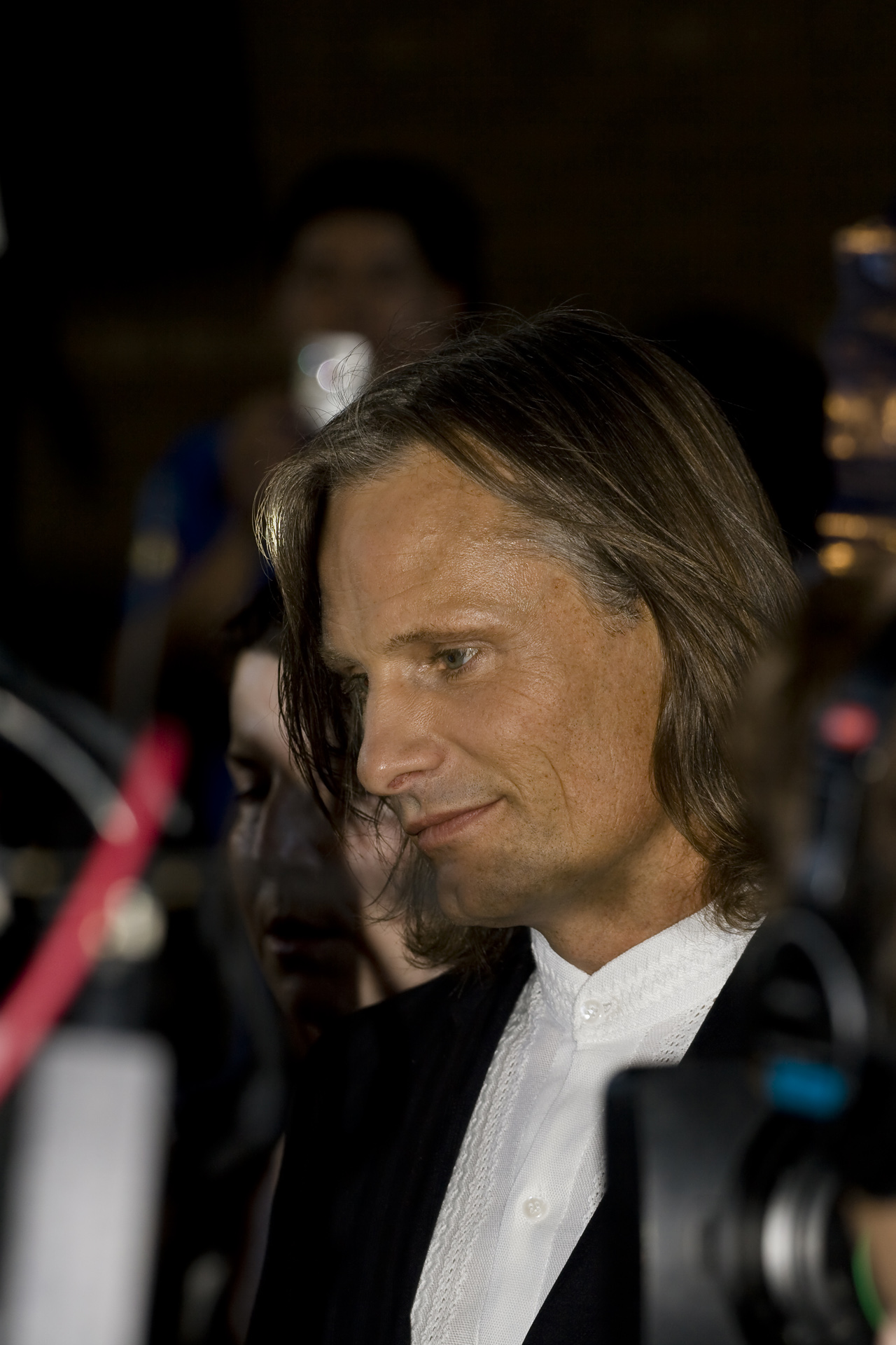 At the premiere of "The Road", directed by John Hillcoat, and based on the novel by Cormac McCarthy, during the Toronto International Film Festival, 2009.